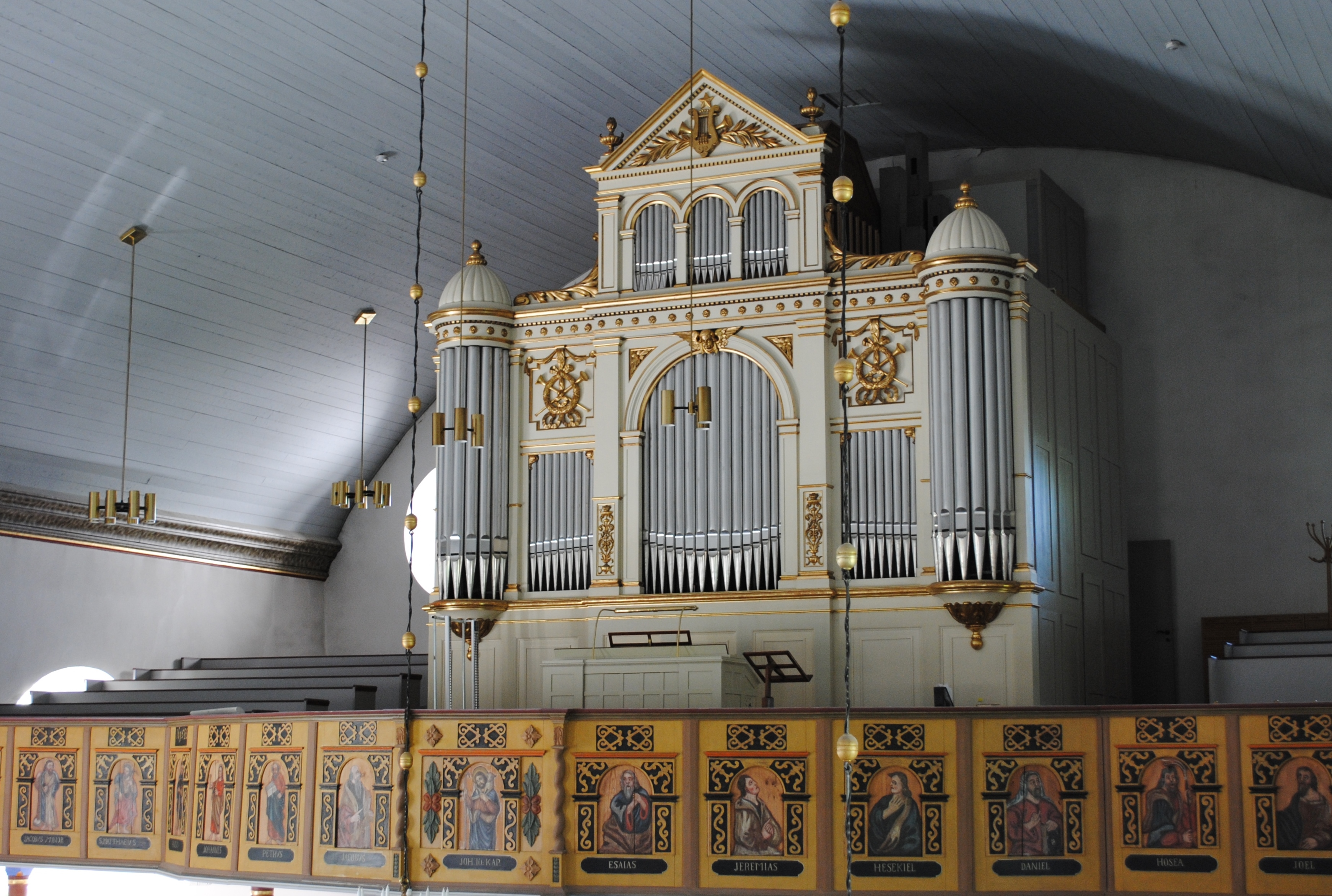 Algutsboda Church.Organ works built in 1894 by Setterquist & son. The organ facade was designed in 1893 by Fredrik Lilljekvist.